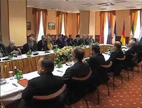 Iran-P5+1 nuclear negotiations in Golden Ring Hotel, Moscow, Russia, June 18-19, 2012